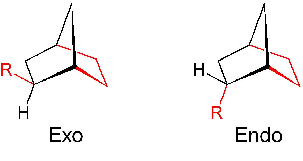 Coloration to highlight important parts